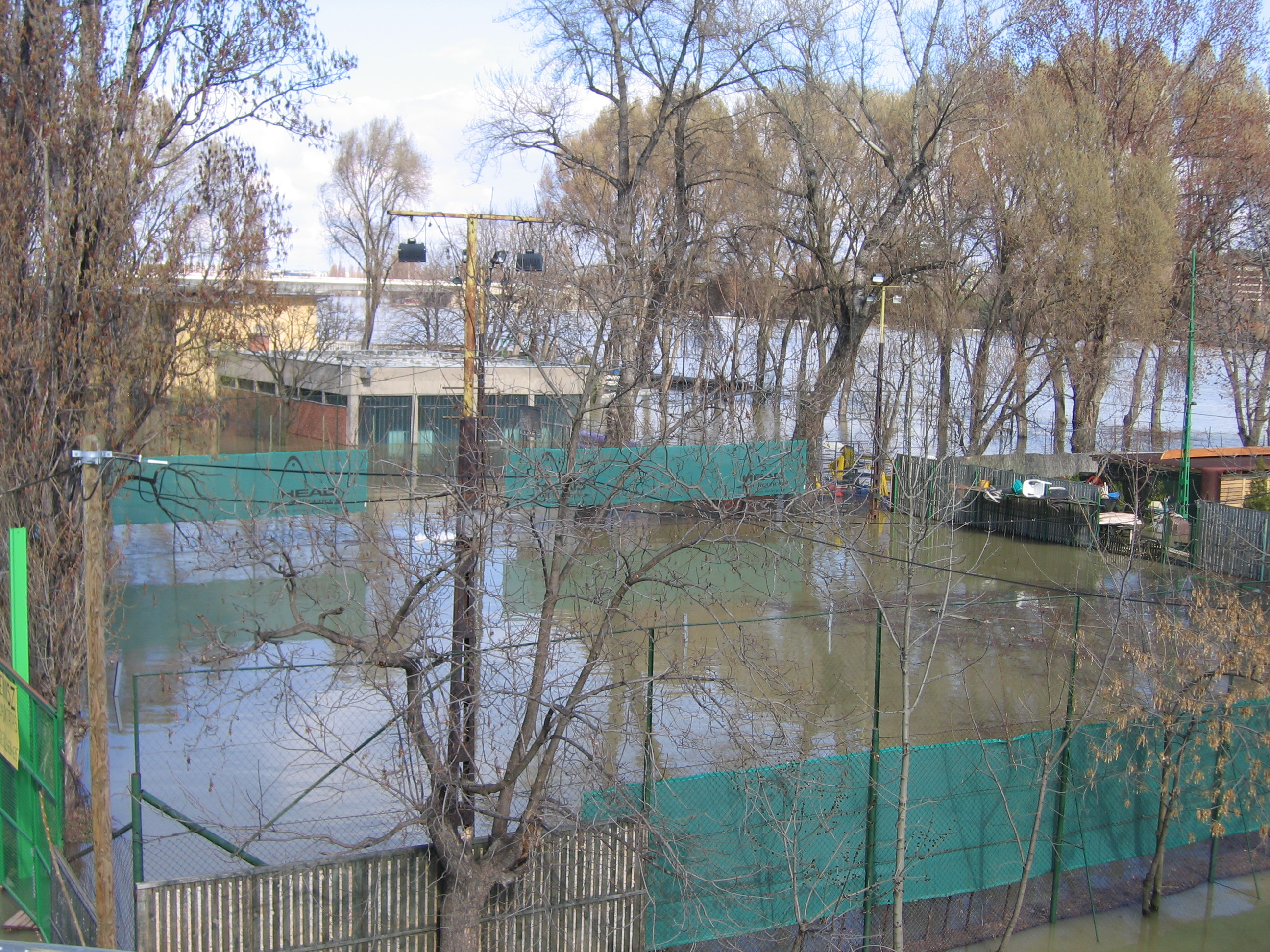 Budapest under water at 2006-04-03. This is a sports area, with tennis-courts